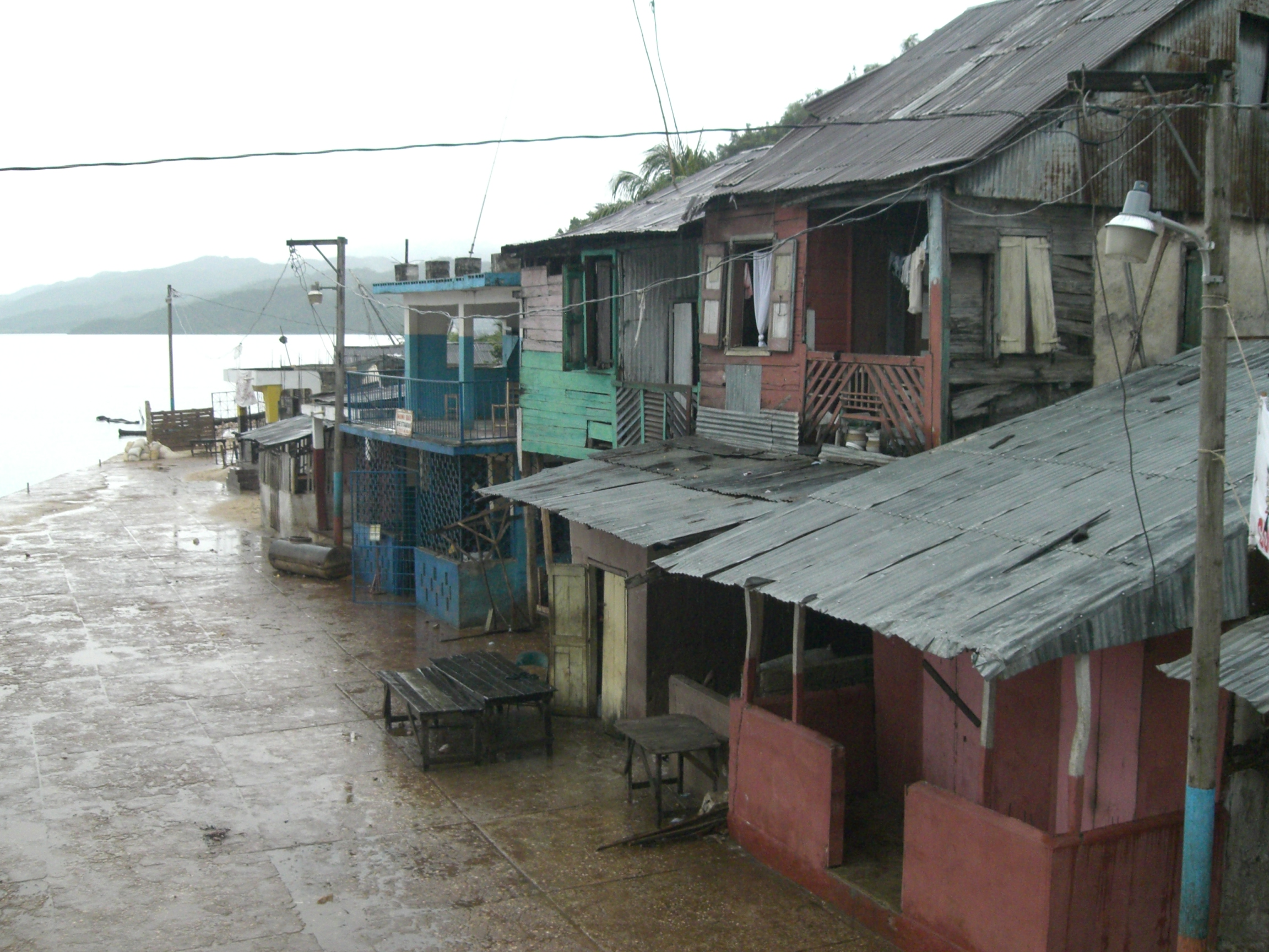 City of Pestel, Haiti